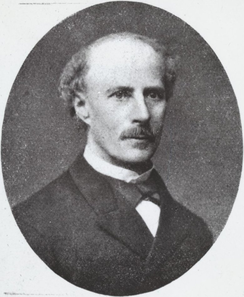 Picture of Philippus van Blom (Dutch judge, writer and politician), taken from the Nationaal Archief of the Netherlands. Van Blom died in 1910, and picture is likely taken long before that. Author unknown to Nationaal Archief.